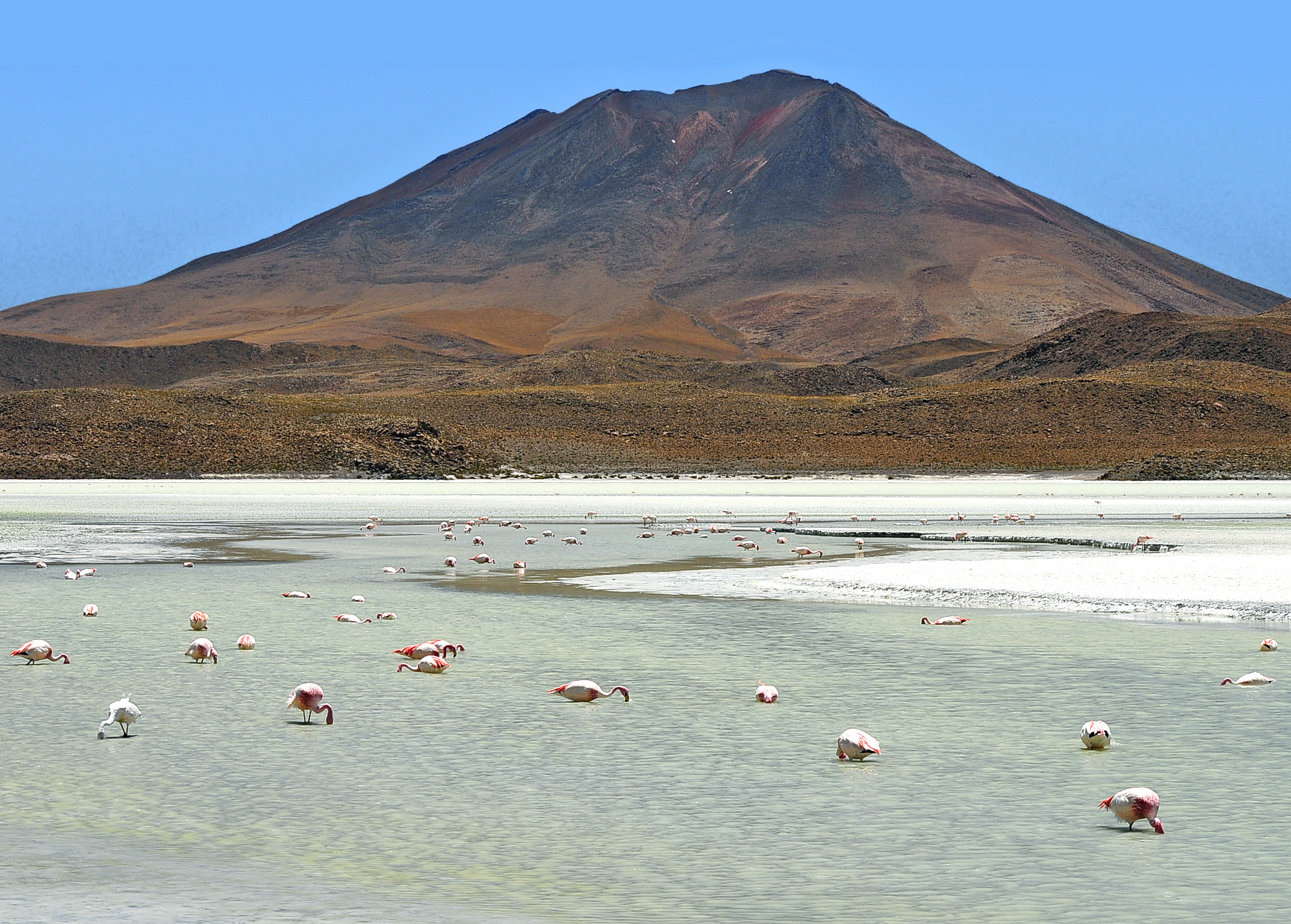 Laguna Hedionda ("Stinking Pool") and andean flamingoes; in the background, the Araral Mountain (border of Chile) "Eduardo Avaroa" Andean Fauna Reserve, Potosí, Bolivia